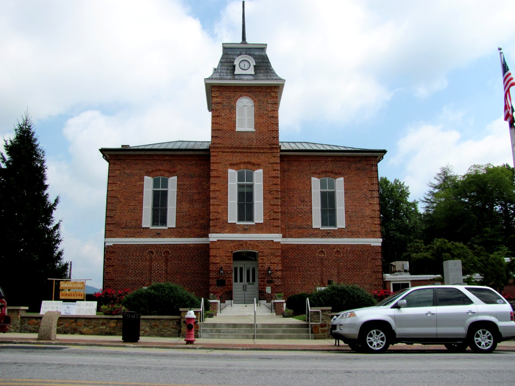 Transylvania County Courthouse, Brevard, NC